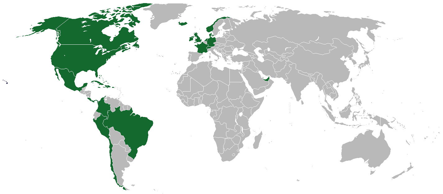 Countries served by flights to and from Orlando (MCO) including seasonal and future destinations.